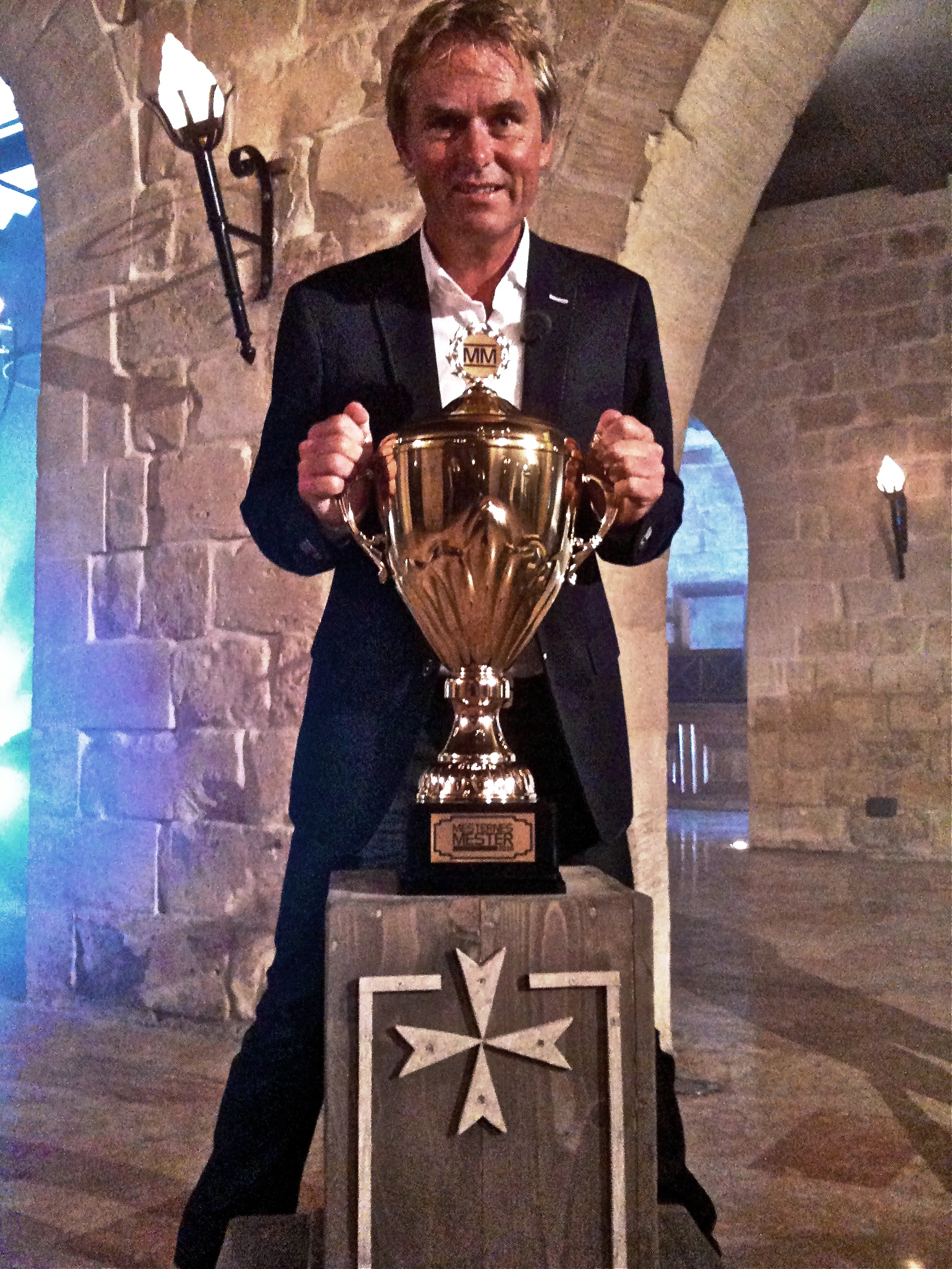 Dag Erik Pedersen, Norwegian TV anchor and retired road racing cyclist.